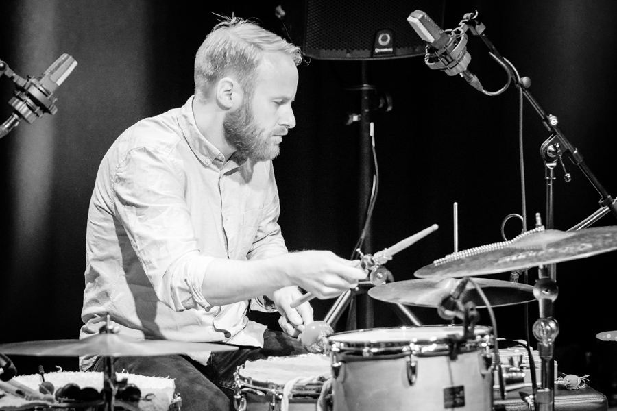 Øyvind Hegg-Lunde with Erlend Apneseth Trio in Sølvsalen. The concert was part of Kongsberg Jazzfestival and took place on 05. July 2018 in Kongsberg. Lineup: Erlend Apneseth (Hardanger fiddle) Stephan Meidell (guitar) Øyvind Hegg-Lunde (drums)